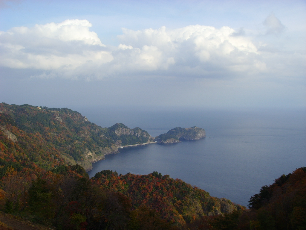 a photo of Ulleung Island (Ulleungdo)